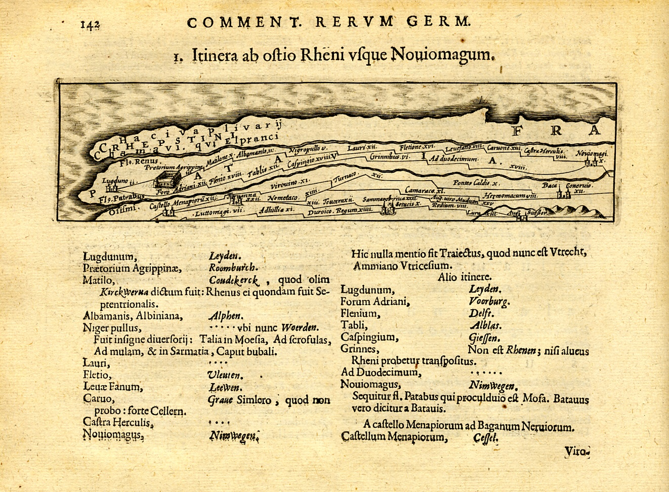 part of Tabula Peutingeriana from Commentariorum Rerum Germanicarum by Petrus Bertius (1616)